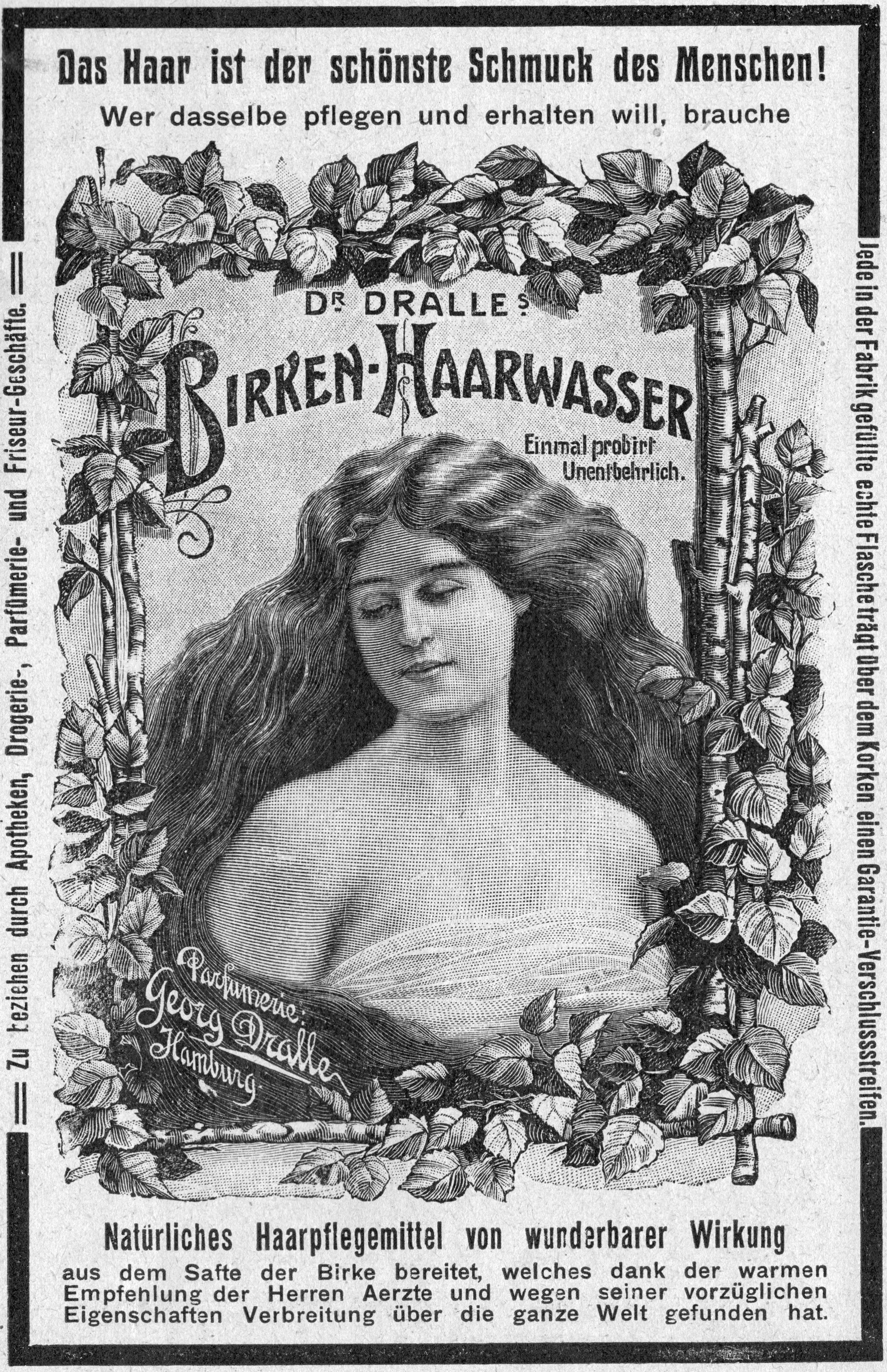 Advertisement of Georg Dralle, Hamburg